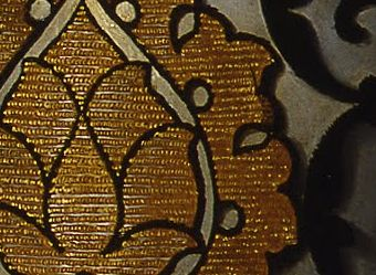 Detail of brocatta riccio sopra riccio (loop-over-loop brocaded velvet) from the court dress of Eleanor of Toldeo in Bronzino's portrait.